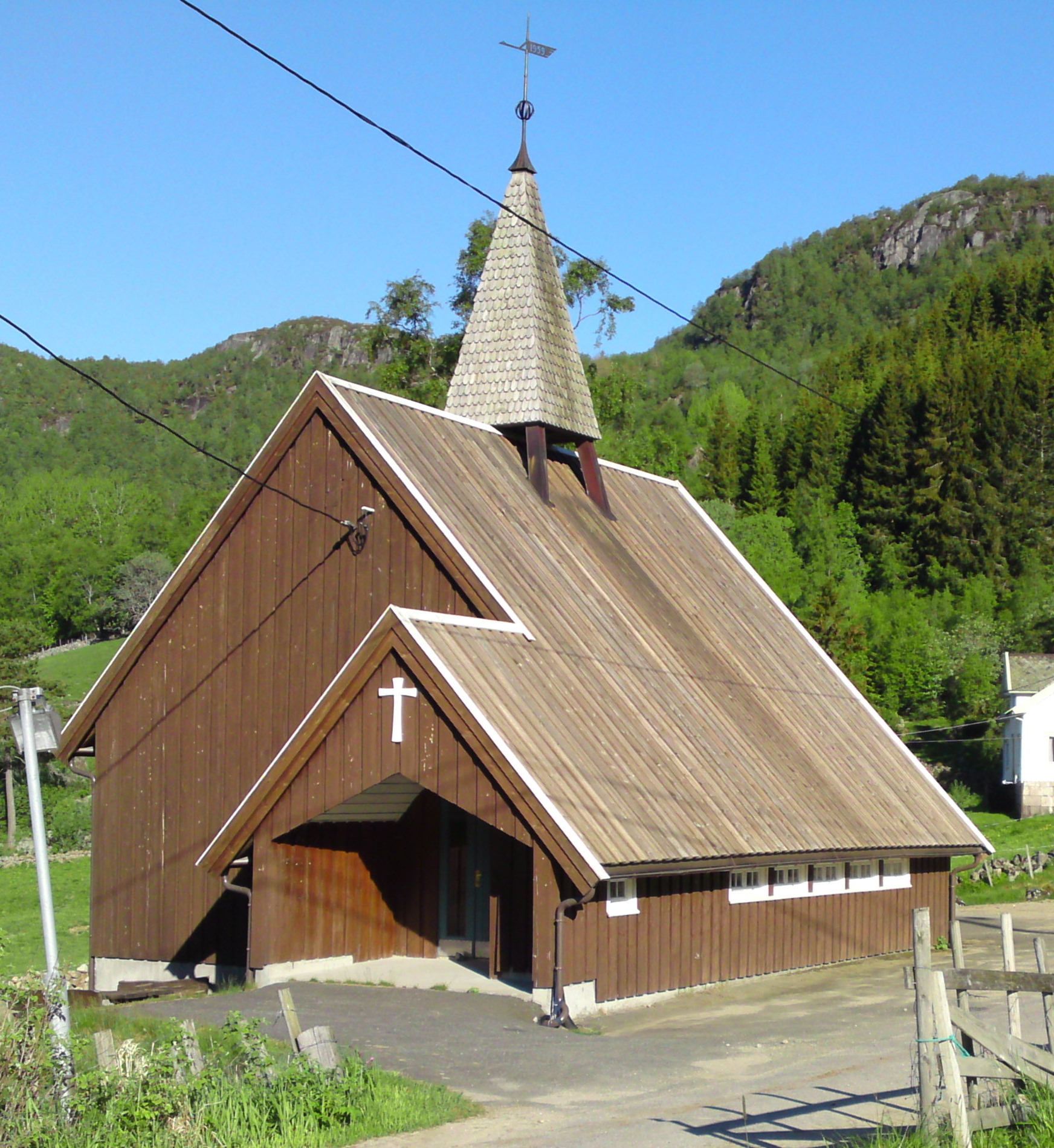 Ljosland chappel in Åseral, Norway